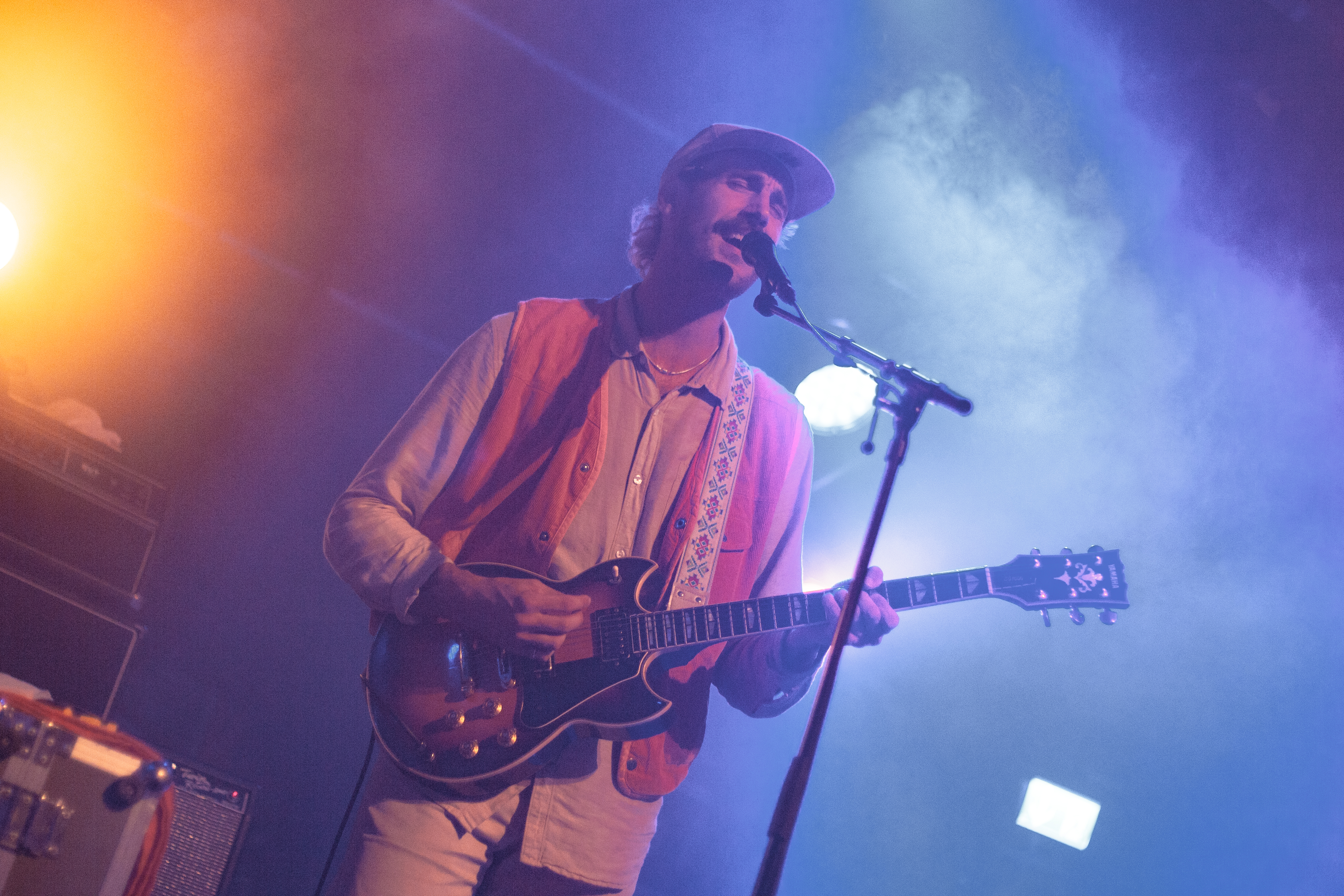 Rayland Baxter in the Spiegeltent at Haldern Pop Festival 2019.